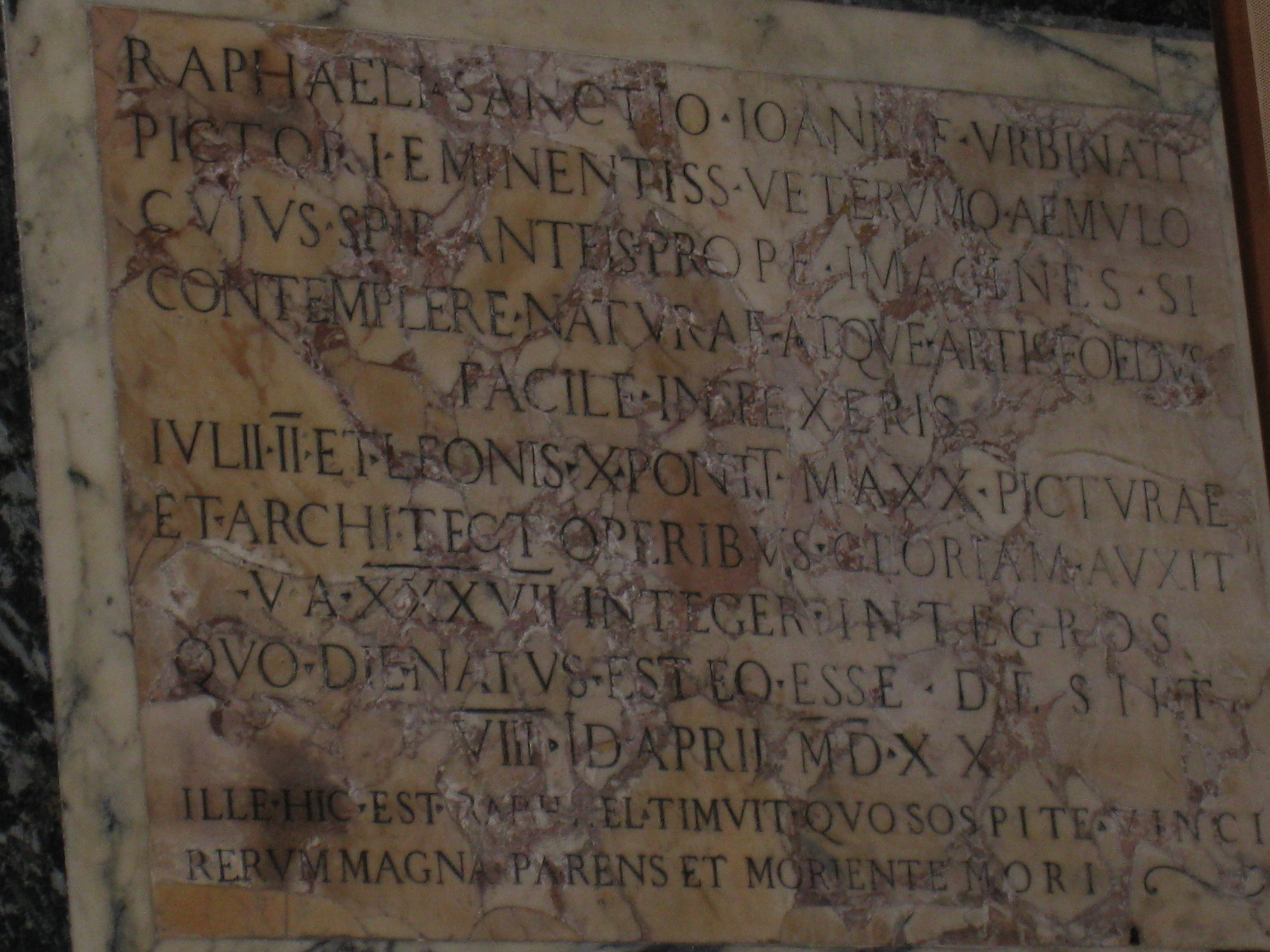 This is an offcenter picture of the inscription at Raphael Sanzio's tomb in the Pantheon, Rome.